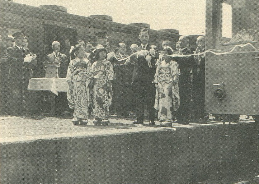 JNR Itsukaichi lineElectrification in 1961-2-17